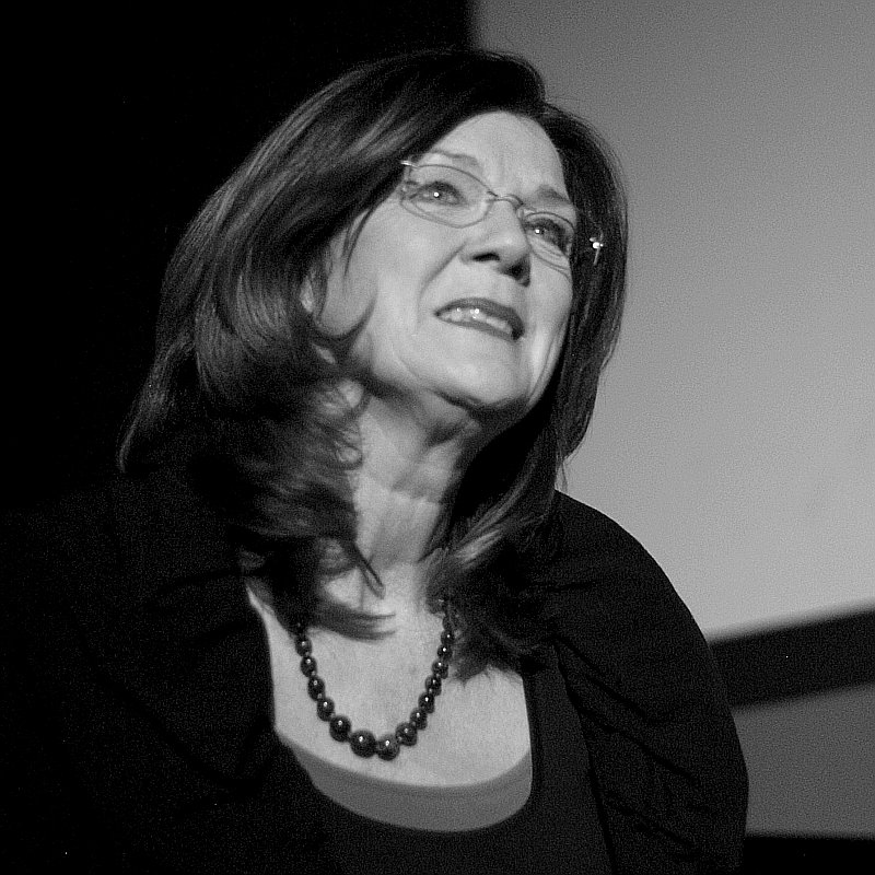 Lenny Kuhr